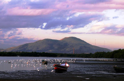 yes incri